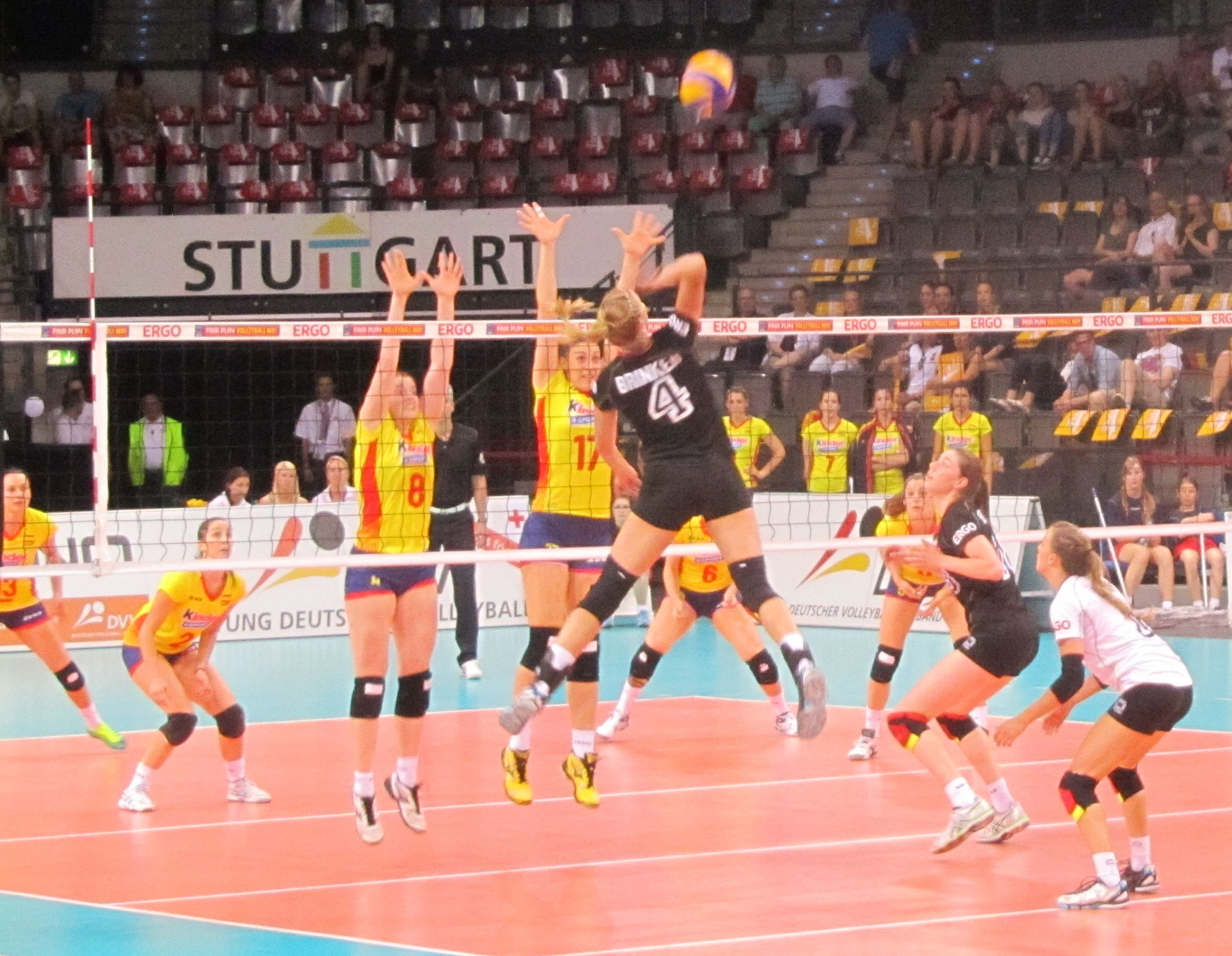 scene from the European League Germany vs. Spain 2014 in Stuttgart with Maren Brinker attacking at the net